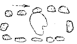 Outline of the dolmen Leetze 4, Saxony-Anhalt